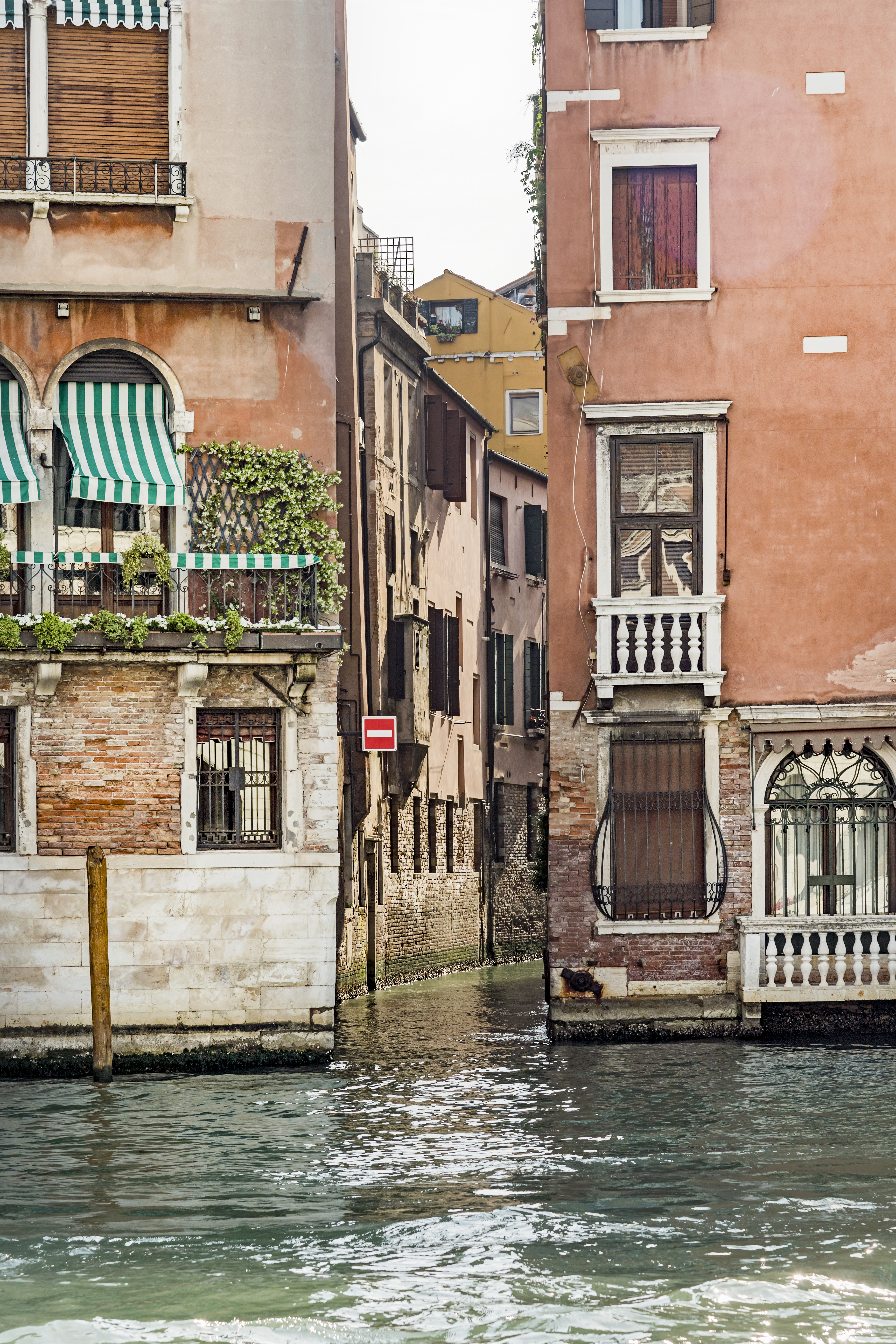 Opening of the Rio San Giovanni Crisostomo on the Grand Canal Cannaregio Venice.